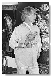 Ian Hornak in his East Hampton, New York studio standing in front of two of his paintings with his Red Lored Amazon Parrot, Paco.